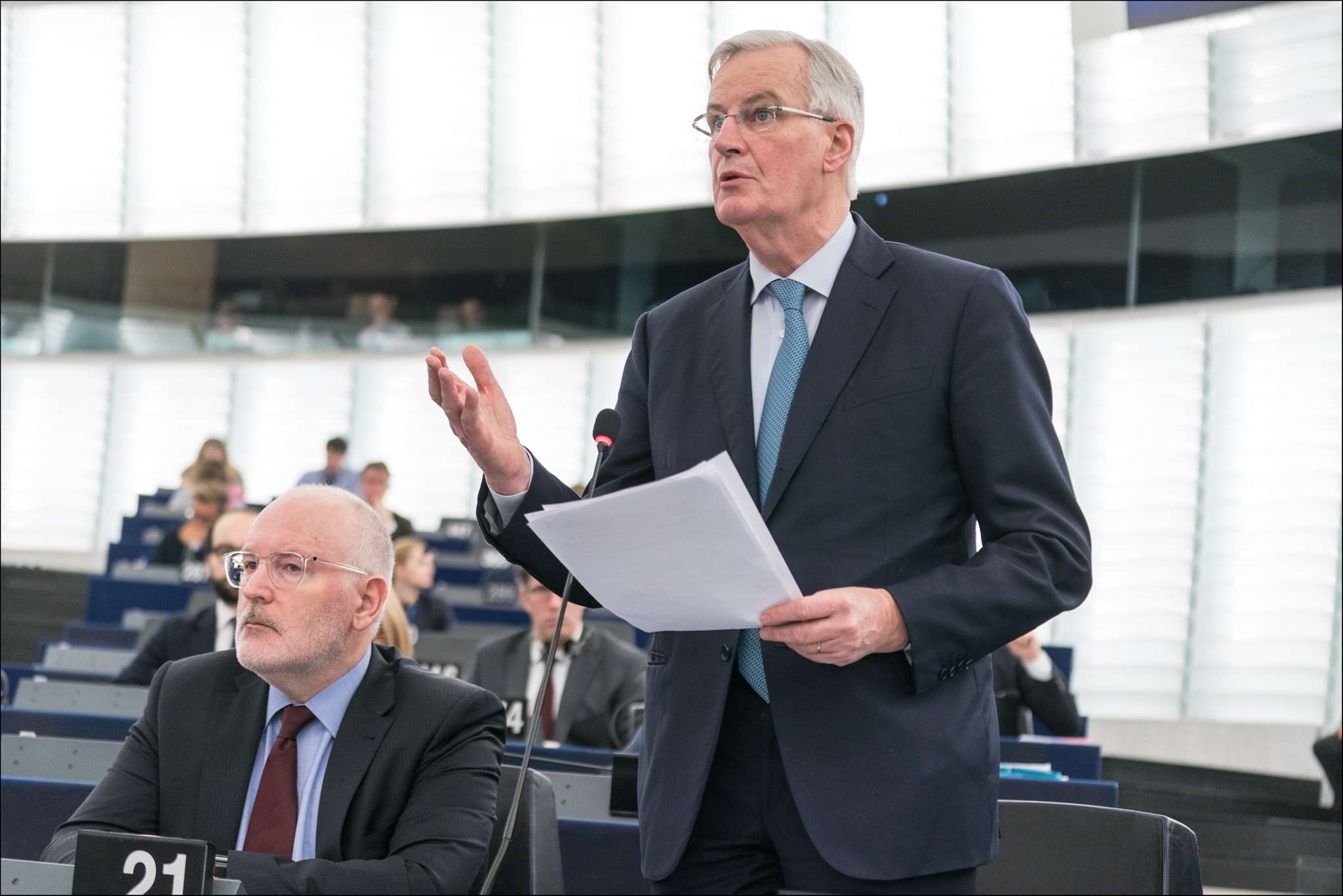 Following the UK parliament's rejection of the Brexit deal in a vote last evening, members of the European Parliament have underlined that the EU will remain united and that citizens’ rights are Europe's priority. Speaking in a debate in Parliament today, Commission Vice-President Frans Timmermans said commitments on the peace process and the border in Ireland or on citizens’ rights cannot be watered down. Parliament's lead member on Brexit @guyverhofstadt called on UK politicians to build a positive majority to break the Brexit deadlock. READ MORE ►► This photo is free to use under Creative Commons license CC-BY-4.0 and must be credited: "CC-BY-4.0: © European Union 20XY – Source: EP". No model release form if applicable. For bigger HR files please contact: webcom-flickr(AT)